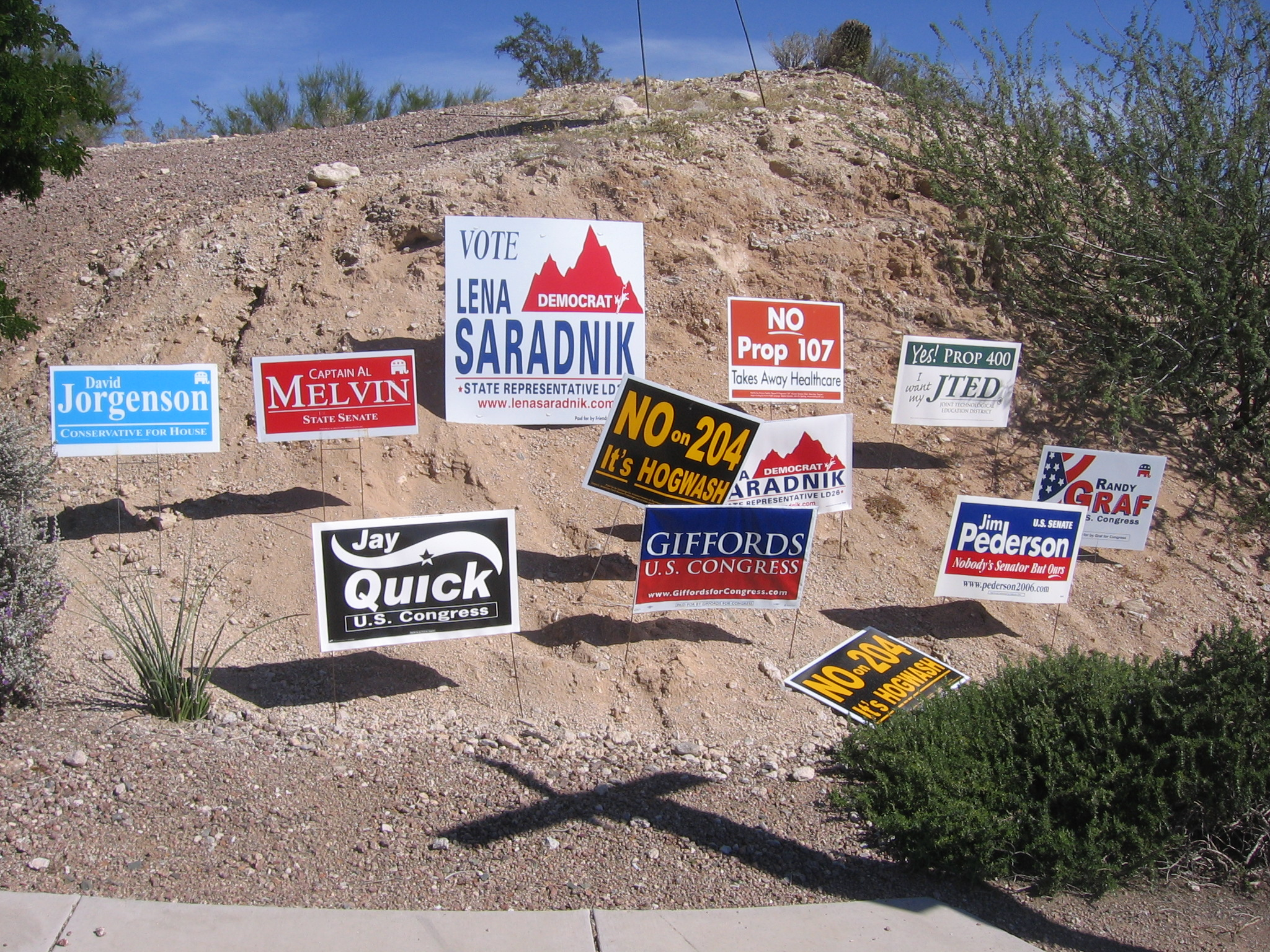 More information Signs of candidates shown: Senate Jim Pederson (Democrat) - lost Congress Randy Graf (Republican) - lost Gabby Giffords (Democrat) - won David Nolan (Libertarian) - lost Jay Quick (Independent) - lost House Jorge Sorenson (Republican) - lost State Representative/State Senate Al Melvin (Republican) - lost Lena Sarandik (Democrat) - won Propositions Prop 204 - passed Prop 400 - passed Prop 107 - failed CC-BY-SA -- you attribute to me if you want to reuse Campaign signs for the 2006 Arizona elections, including Tucson propositions and local candidates. Taken October 2006 by GURoadrunner